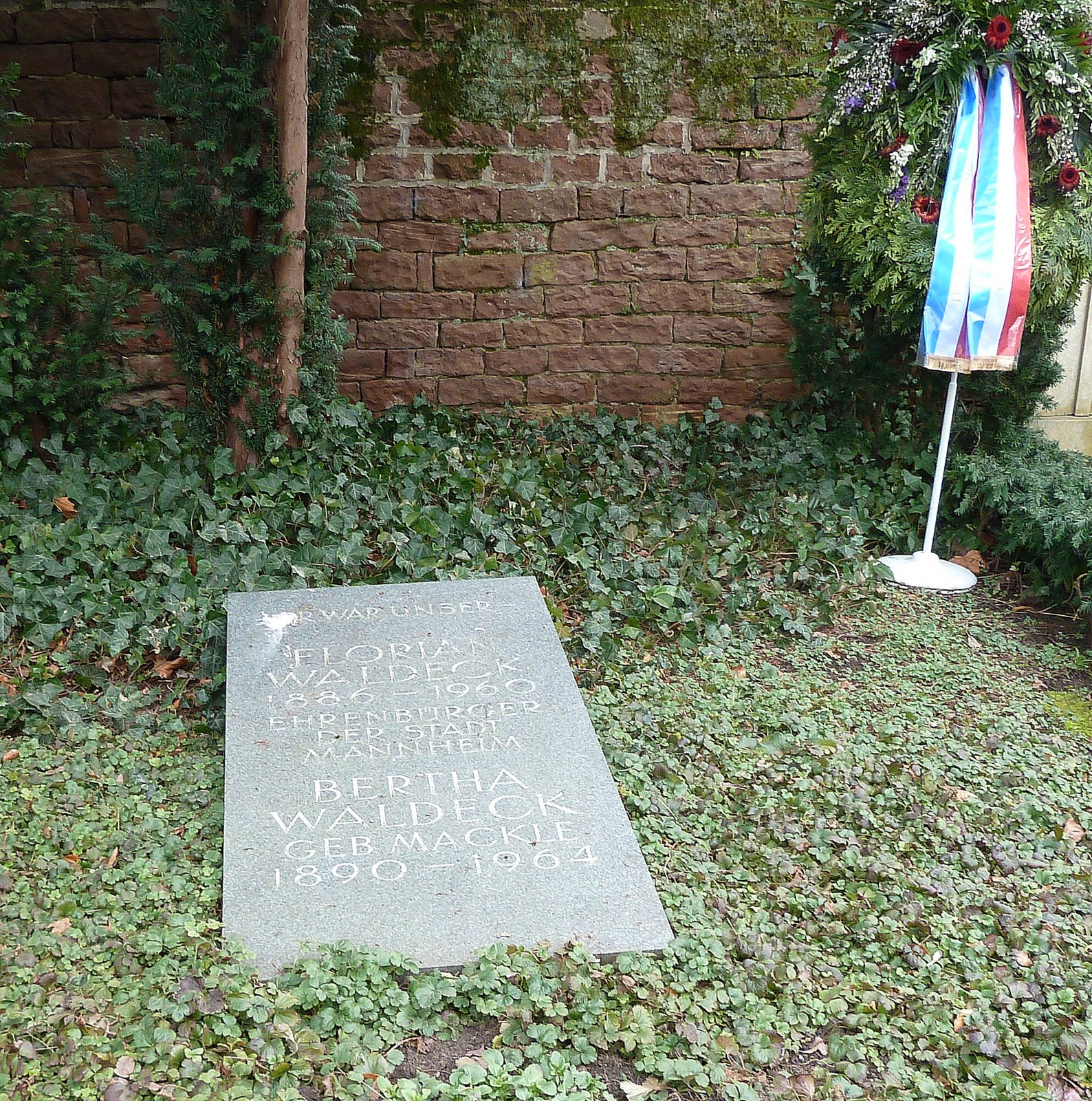 Waldeck Grab in Mannheim